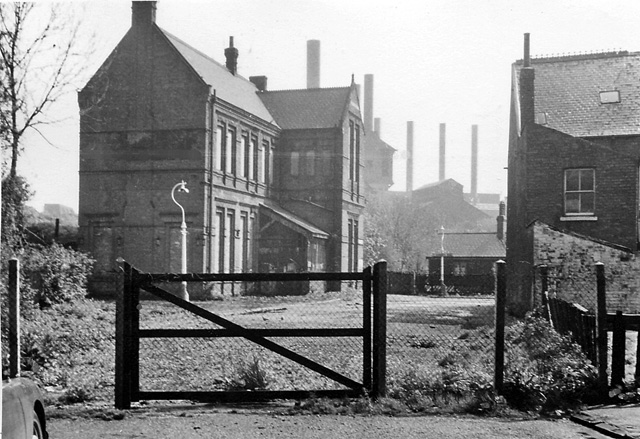 Remnants of Beverley Road Railway Station, Hull, East Riding of Yorkshire, England. View roughly SW, across ex-Hull & Barnsley Sculcoates - Cannon Street branch, the remnant of Beverley Road station (closed 14/7/24!) being small building in centre background -- admittedly rather uncertainly identified. Correction the station is the building centre left, the main subject of the photograph, steps led to the elevated line, additionally the other side of the line was reached by an underpass The Chimneys in the background are from Sculcoates Power station, the main municipal electricity generating station in the city The view is roughly eastwards (~ENE), view point is almost certainly from Fitzroy Street : correct Ref: 1 March 2011 User:Sf5xeplus